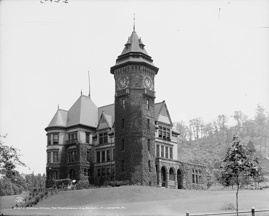 Westinghouse Air Brake Company General Office in Wilmerding, Pennsylvania